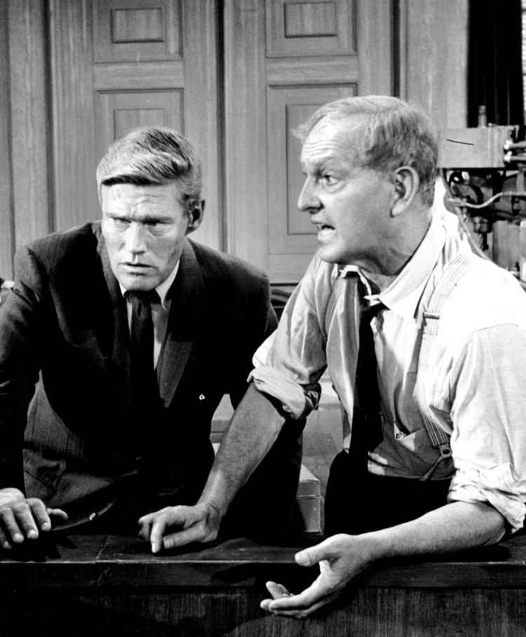 Photo of Chuck Connors as John Egan and guest star Joseph Schildkraut as his client in Arrest and Trial (1963).